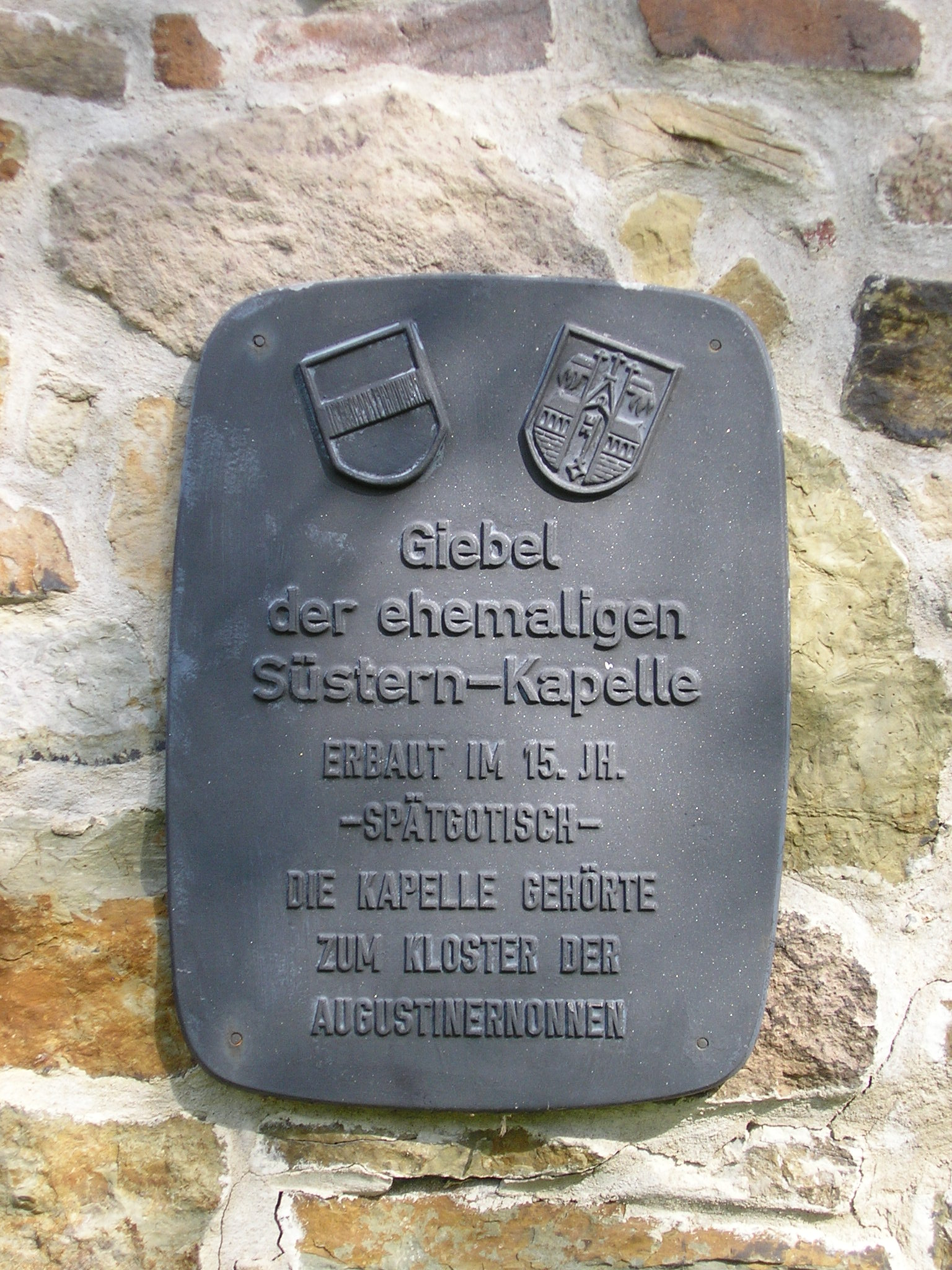 Plaque at ruin of chapel in Herford, District of Herford, North Rhine-Westphalia, Germany.